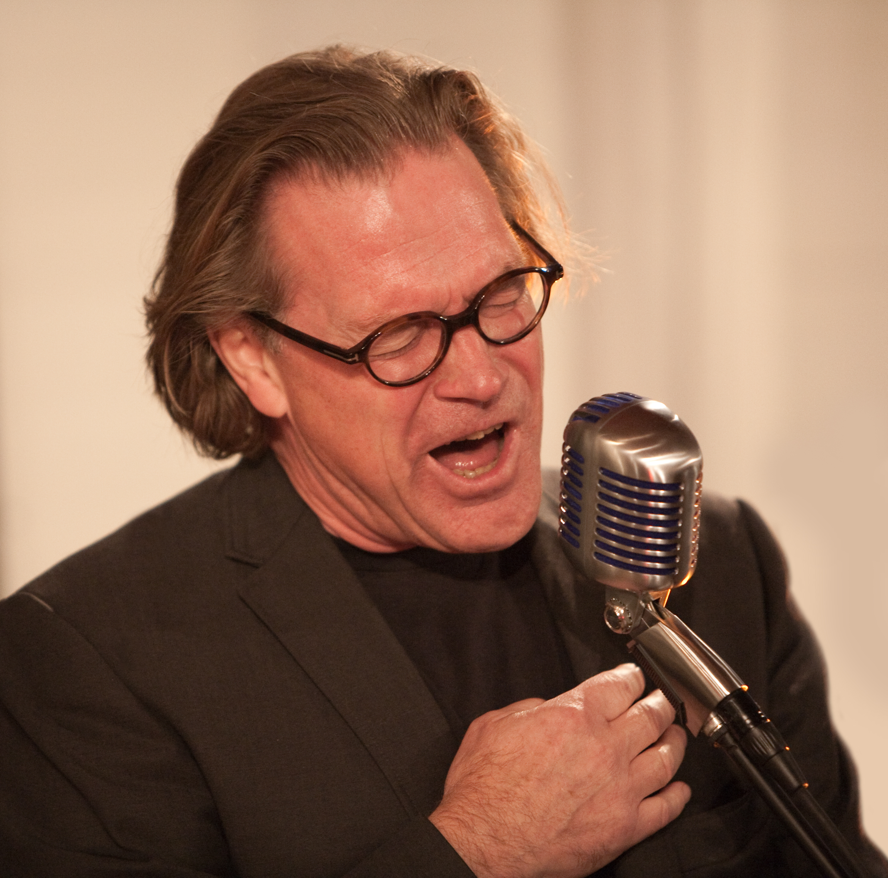 Swante Bobeck with the Soulbrothers at Roddarhuset, Vaxholm, 2011